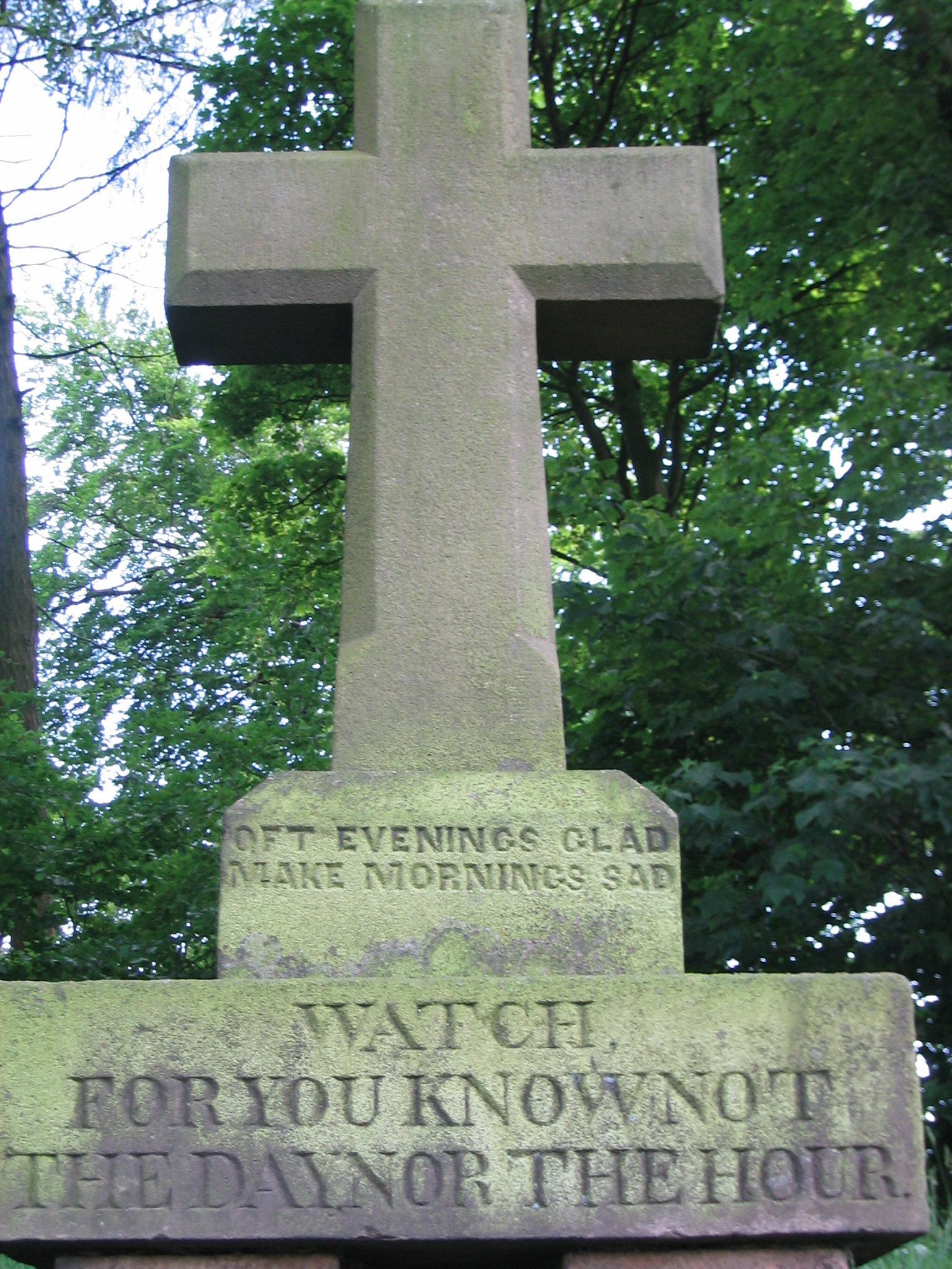 nearby memorial,Stonyhurst, Lancashire